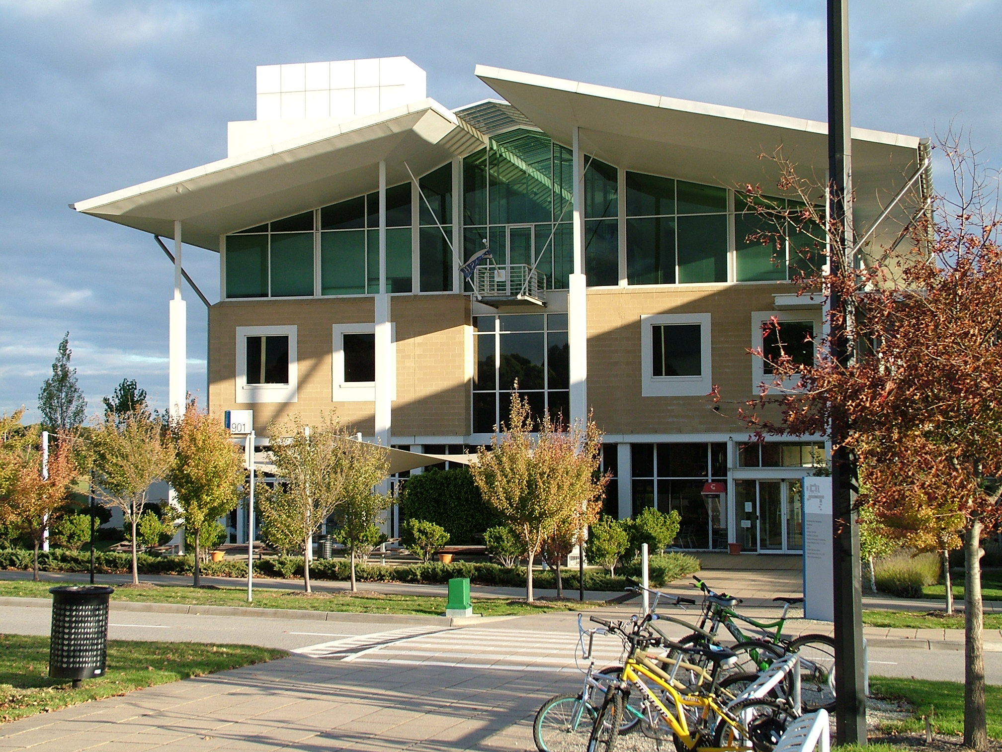 Monash University, Berwick Campus, Victoria, Australia (2005) Jarle Andersen